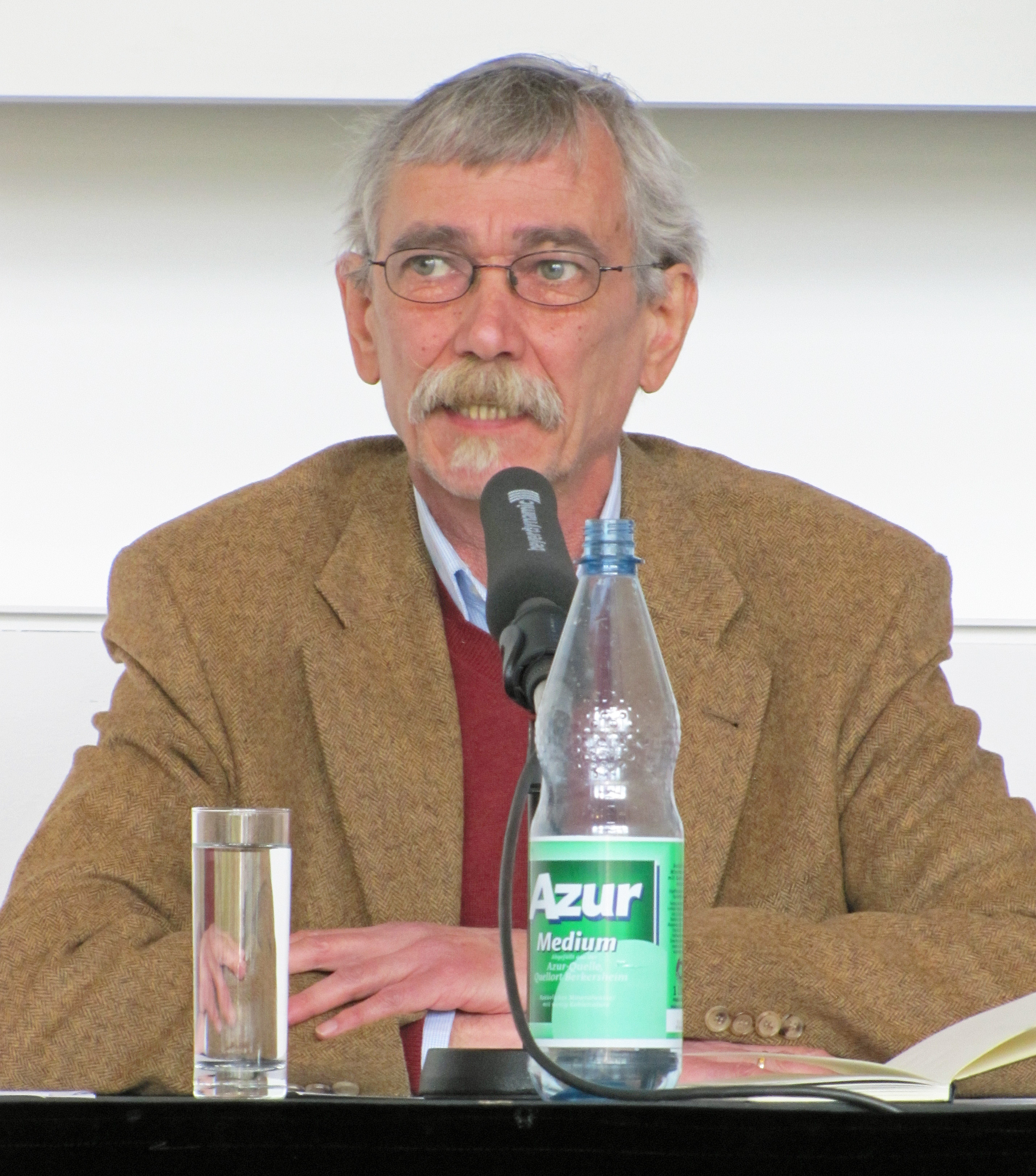 Werner Soellner. German writer and presenter, 2010 in Frankfurt am Main, Germany.